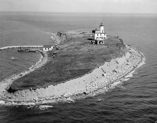 Faulkners IslandLight (New Haven County, Connecticut) Object location41° 12′ 42″ N, 72° 39′ 15″ W